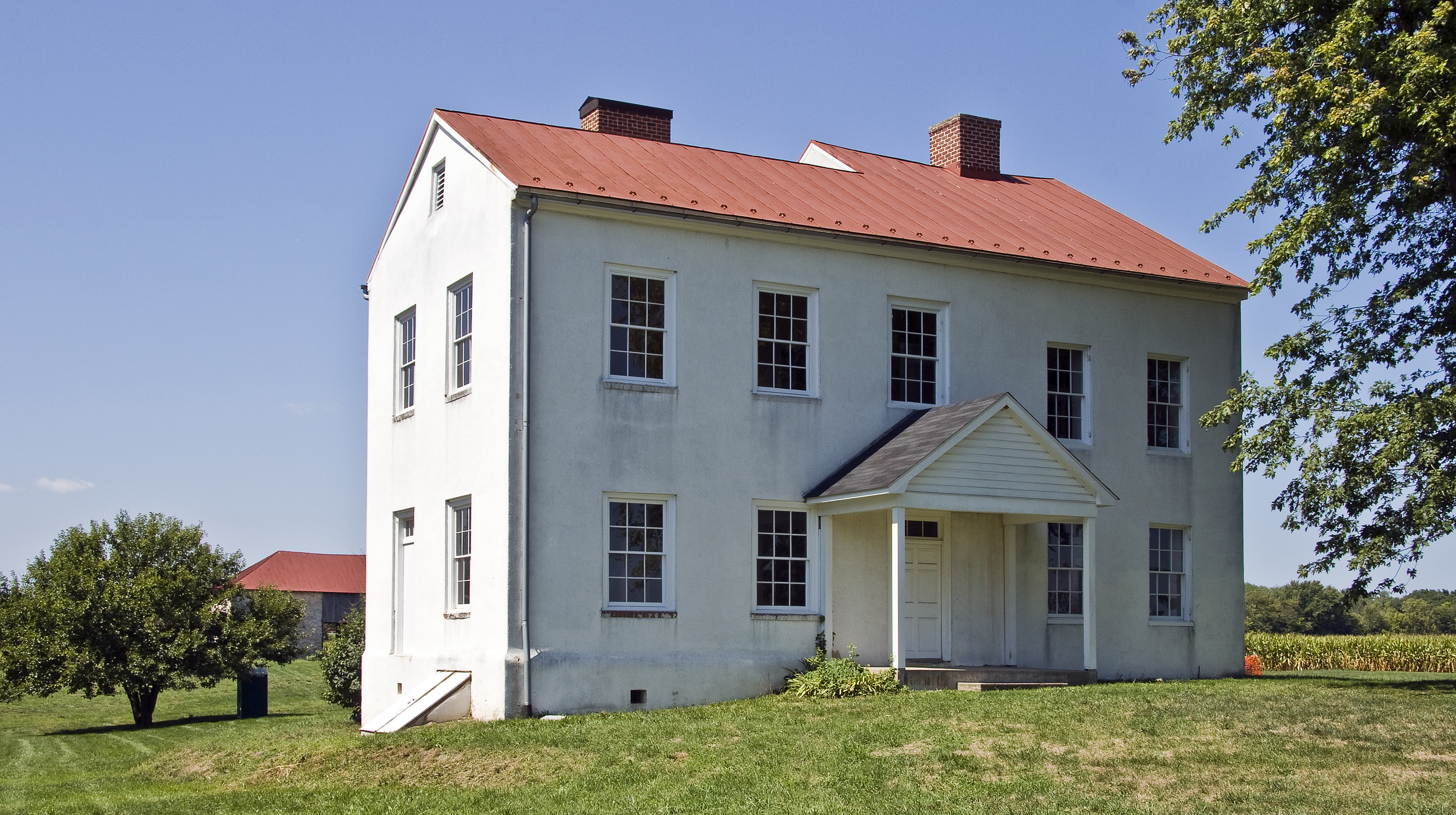 L'Hermitage, later known as the Best House, at Monocacy National Battlefield, Frederick, Maryland USA